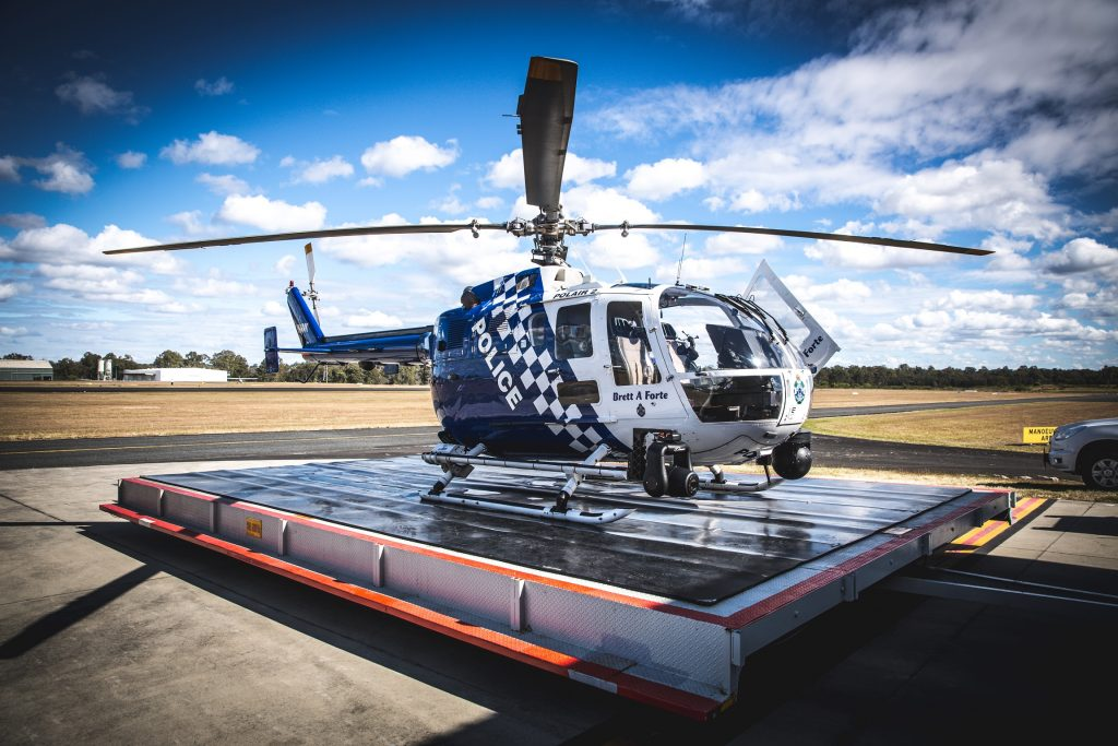 POLAIR 2, police helicopter named Brett A Forte (an officer killed on duty), 2018